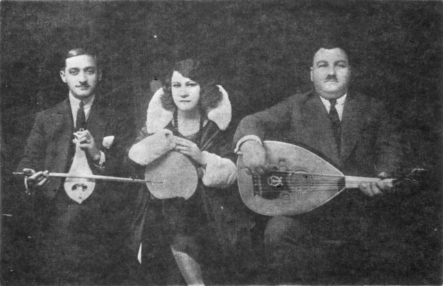 Smyrna Style Trio (1930): Lambros Leondaritis (Lyra), Rosa Eskenazi, Agapios Tomboulis (Oud)